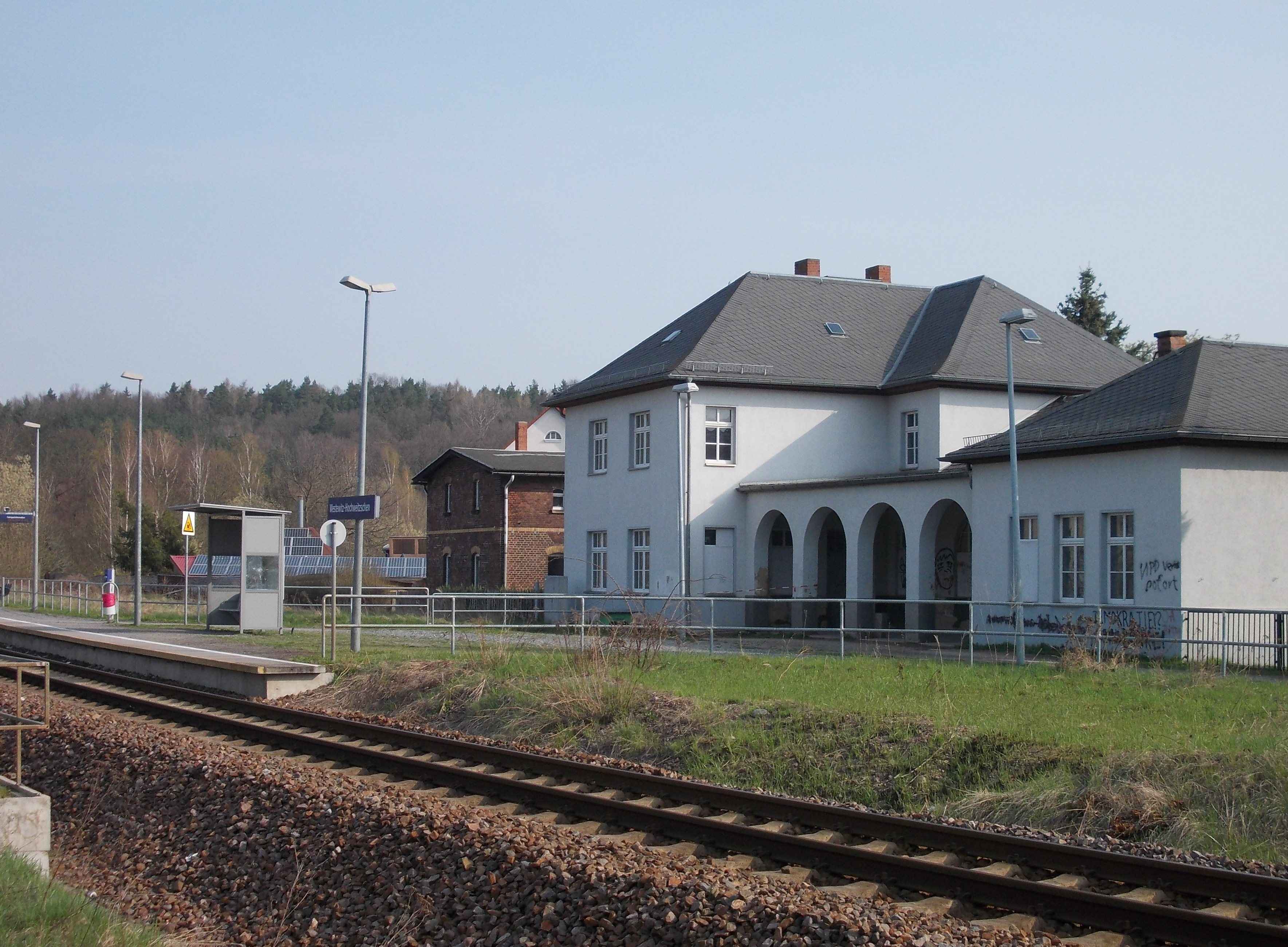 Westewitz-Hochweitzschen train station (Grossweitzschen, Mittelsachsen district, Saxony)